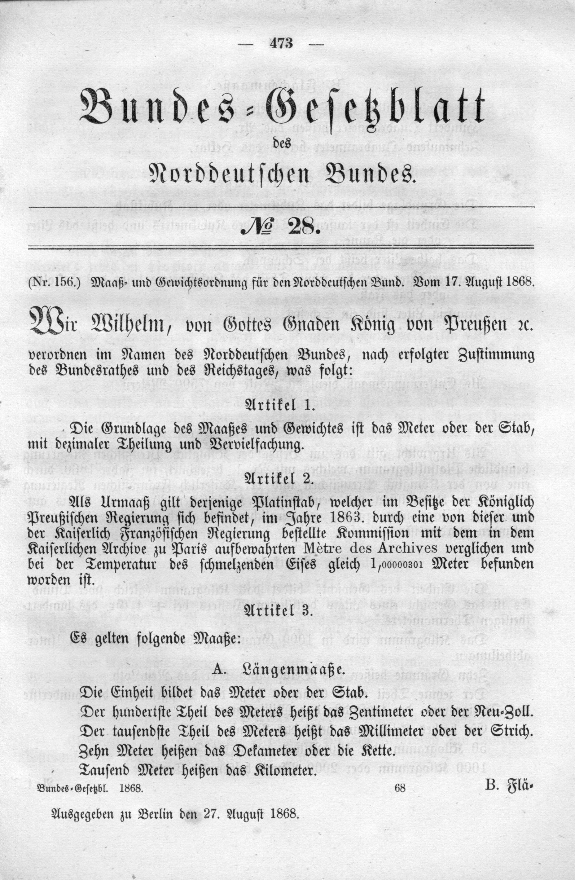 Scan from the Federal Law Gazette of the Northern-German Federation, 1868